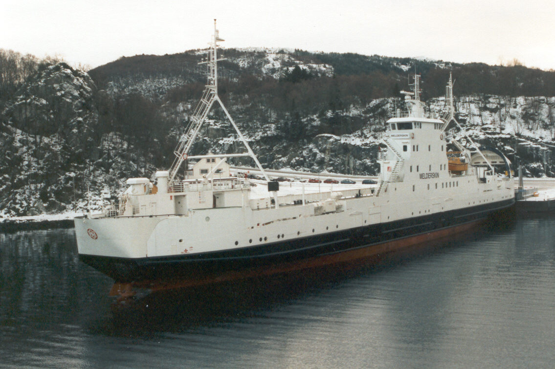 MF Melderskin, built 1985